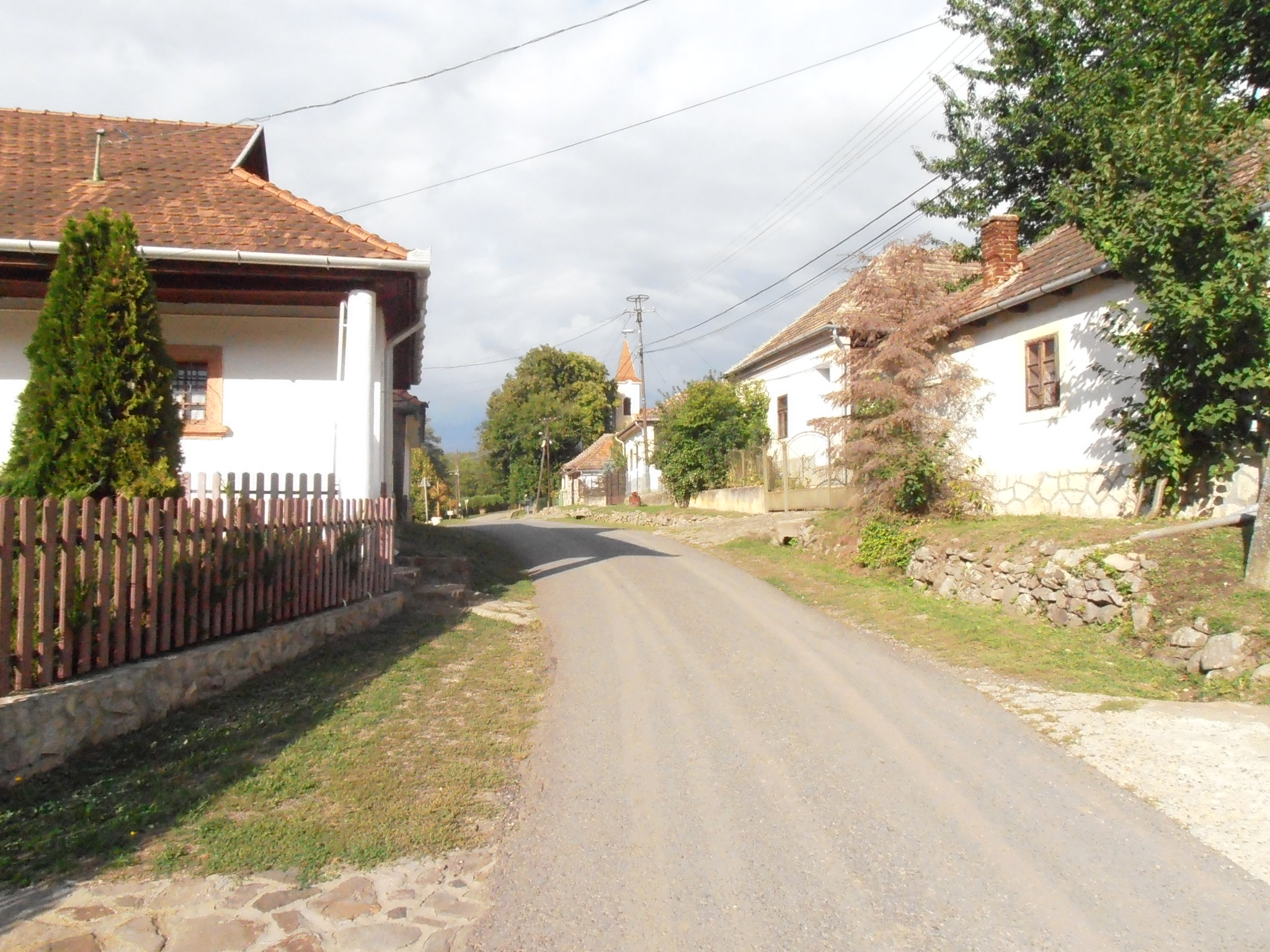 Street in Arka, Hungary Arkai utca